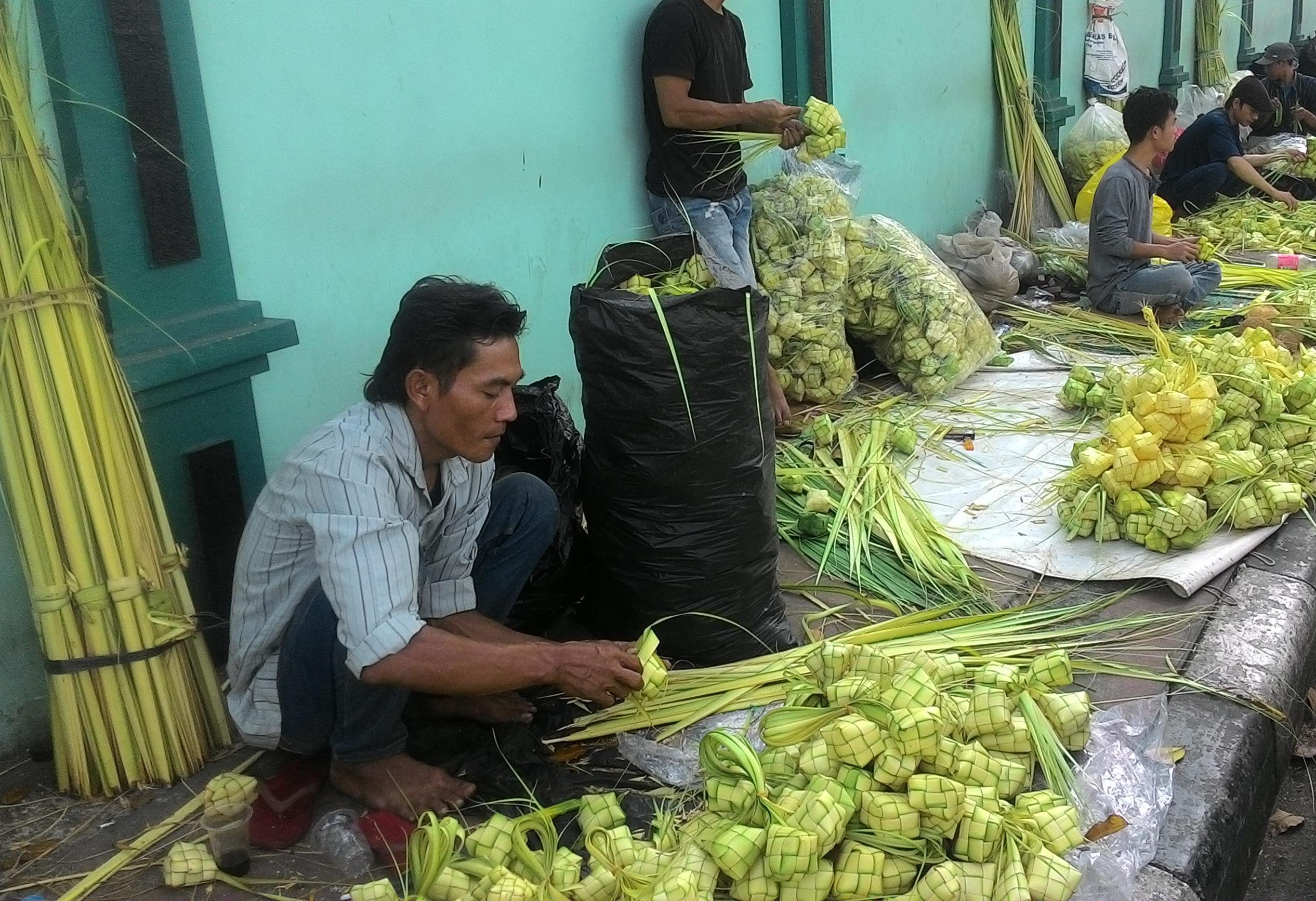 People weaving young coconut fronds (Indonesian: janur) into ketupat pouch to be sold prior of Lebaran haji (Eid al-Adha) in Rawasari Market, Central Jakarta, Indonesia. This ketupat puch will be filled with rice and boiled to make ketupat rice dumpling, an essential food to be consumed by Indonesian Muslims during Lebaran (Eid al-Fitr and Eid al-Adha) celebrations.